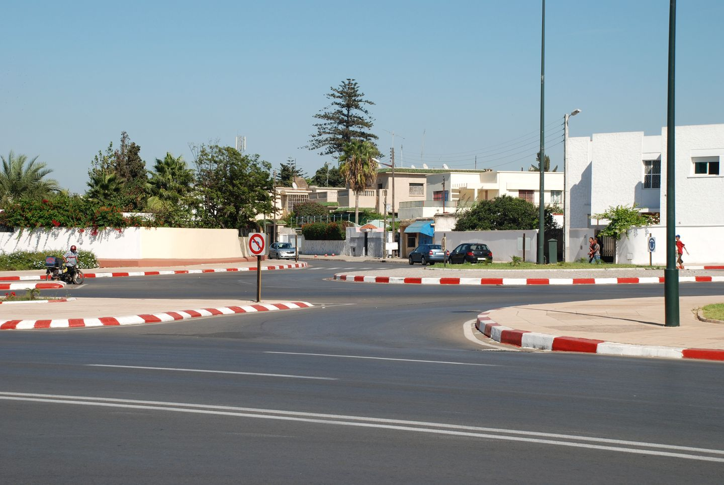 Rabat, Souissi embassy quarter